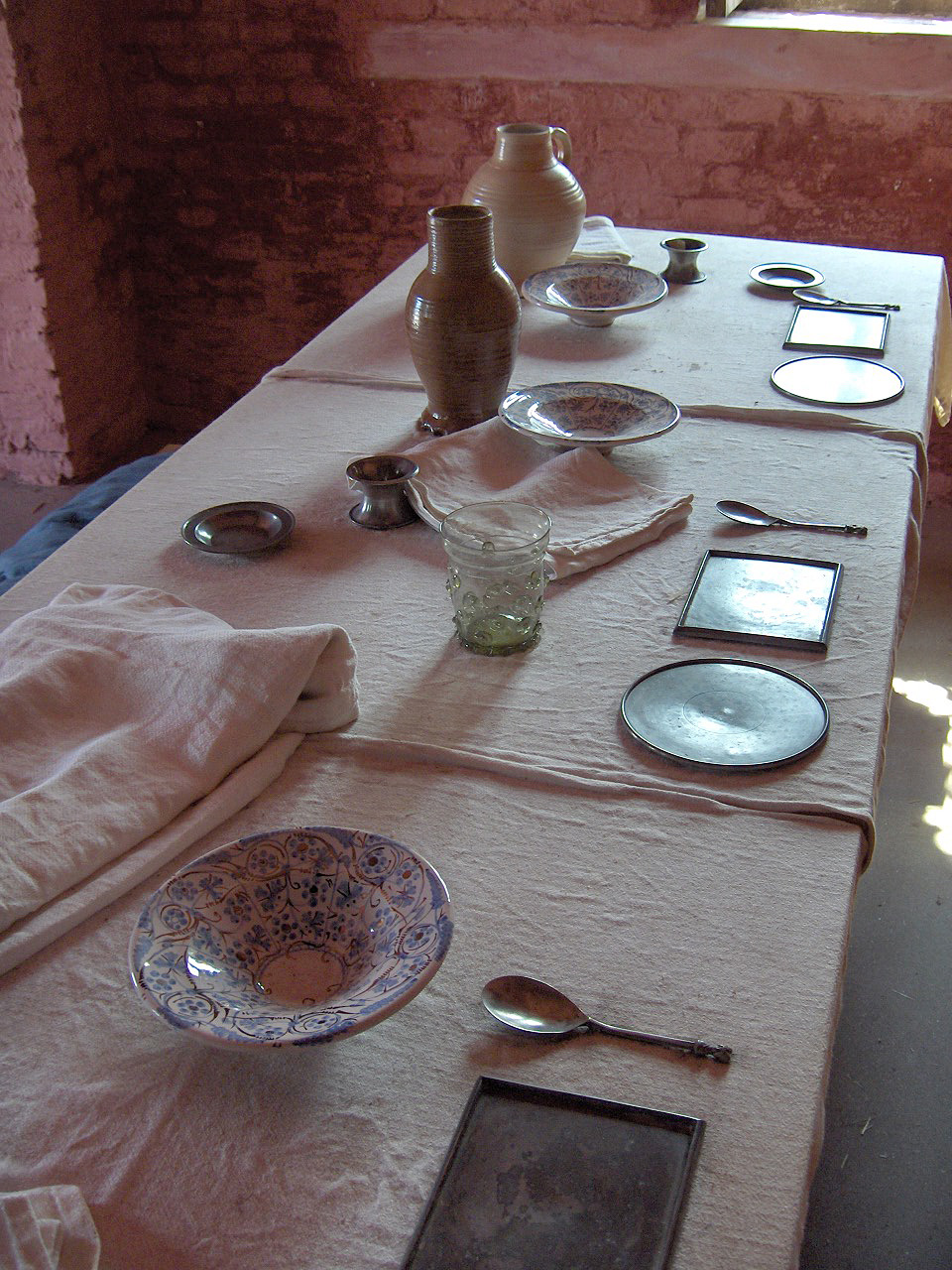 Table set for the meal; with medieval cutlery ca. 1465; at the archeological site of Walraversijde, near Oostende, Belgium